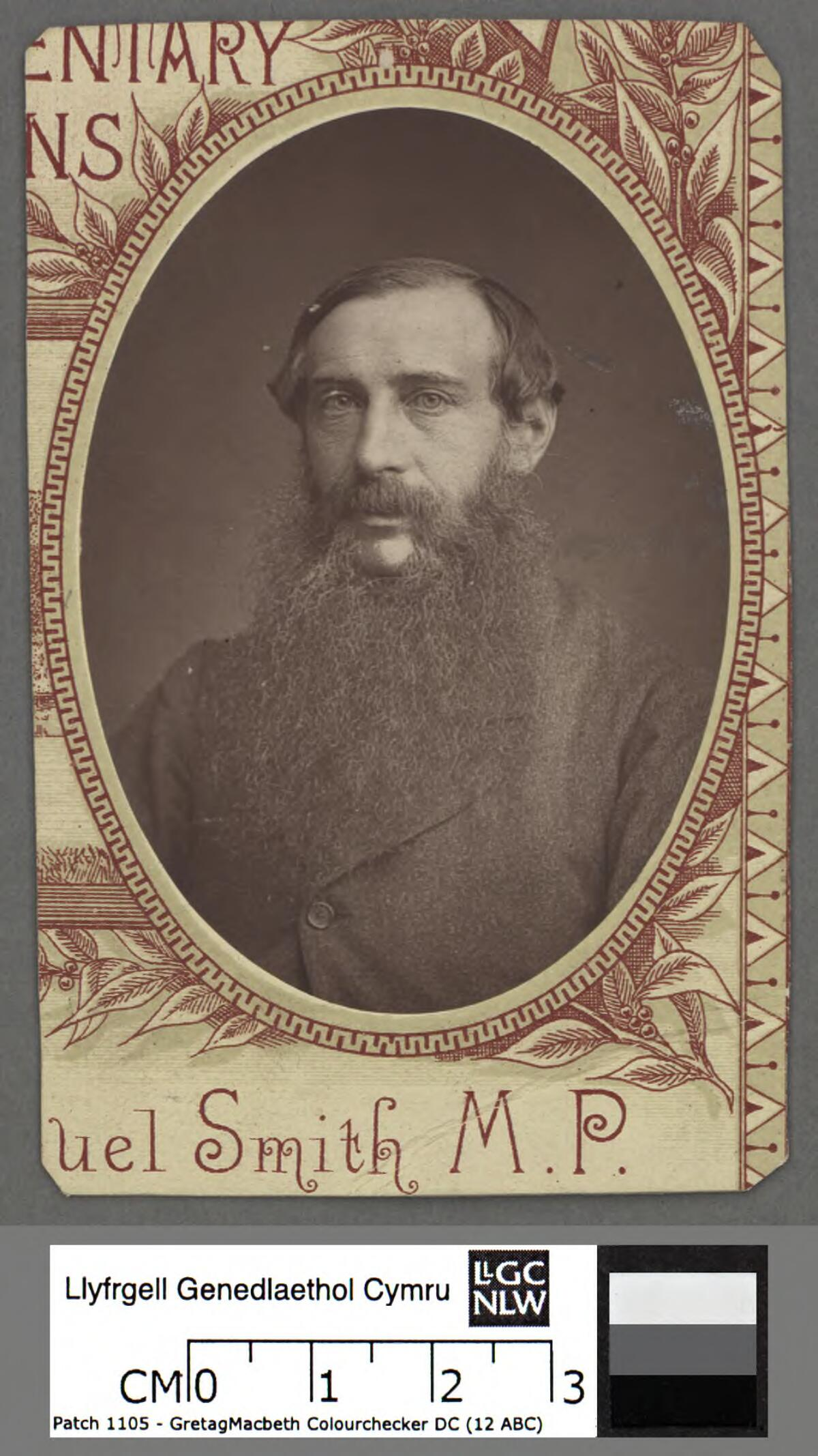 A portrait from the Welsh Portrait Collection at the National Library of Wales. Depicted person: David Saunders – Welsh Calvinistic Methodist minister